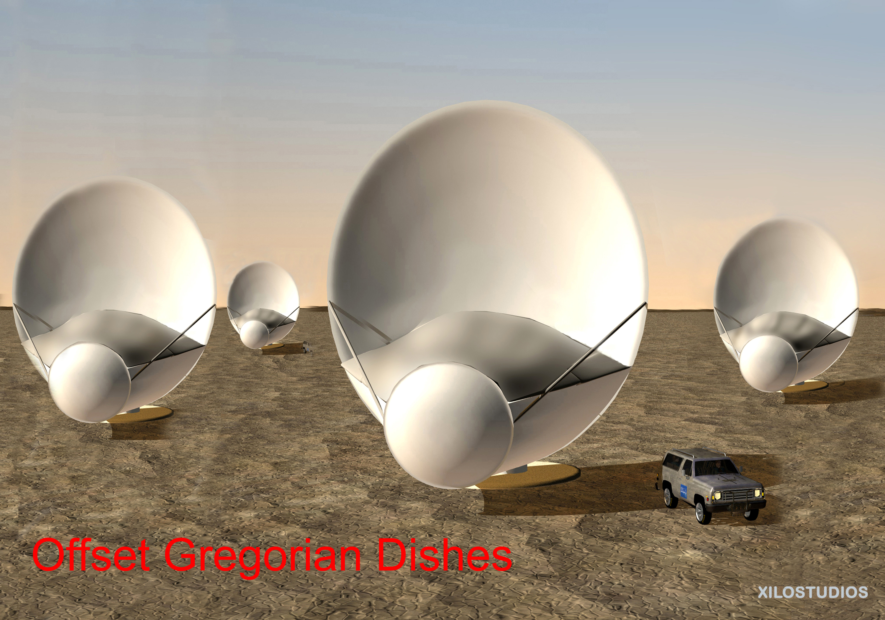 Artist's Impression of the Offset Gregorian dishes that may be used for the SKA